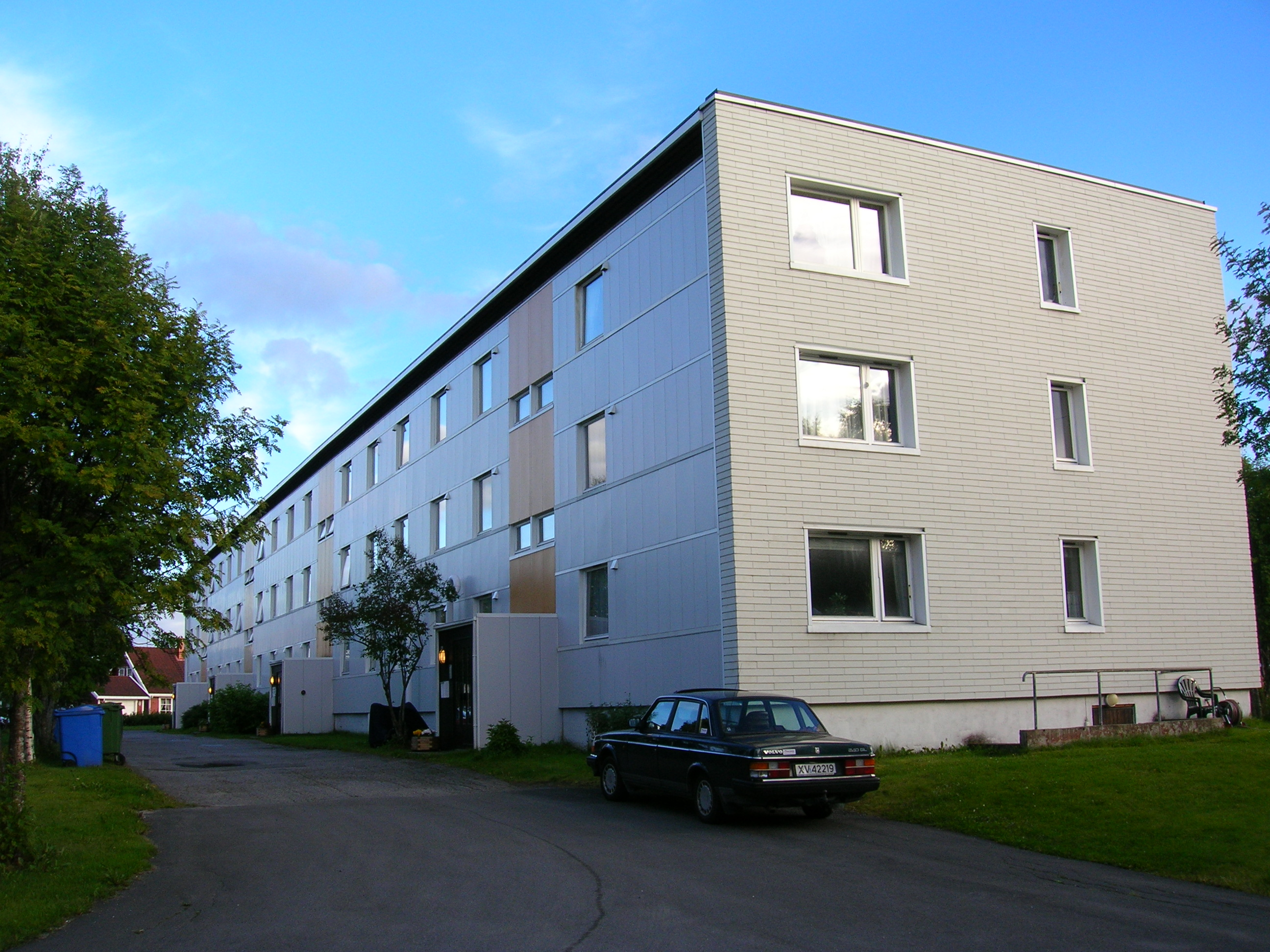 Elgveien housing cooperative on Selfors, north of Mo i Rana, Rana municipality, county of Nordland, Norway, Photo 4 September, 2007 with a Nikon Coolpix 5600 5,1 Megapixel camera.